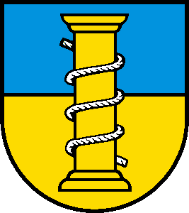 Coat of arms of Freiamt (pre-1798 condominium of the Old Swiss Confederacy)